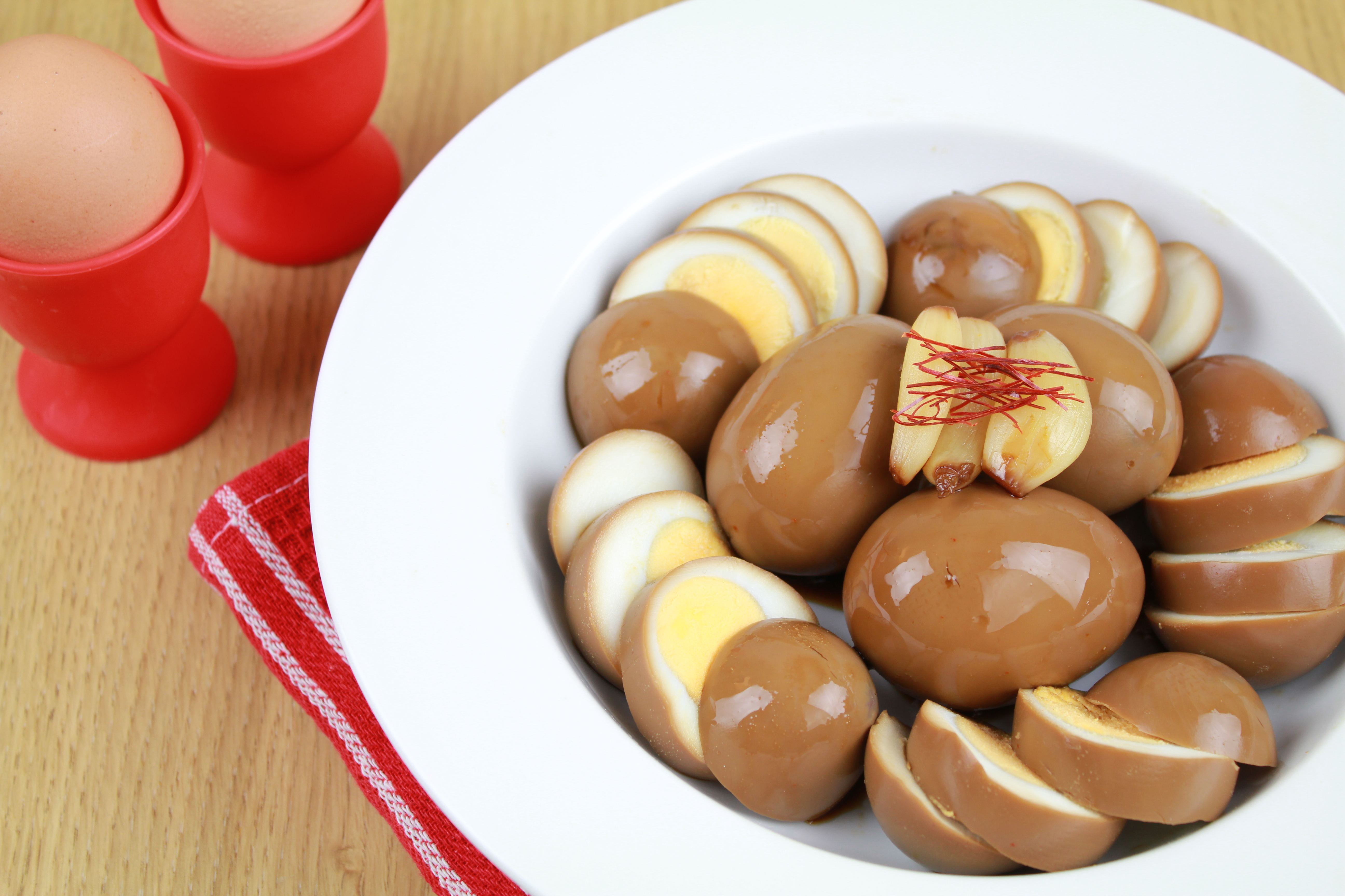 gyeran-jangjorim or gyeran-jangajji (soy sauce braised eggs)